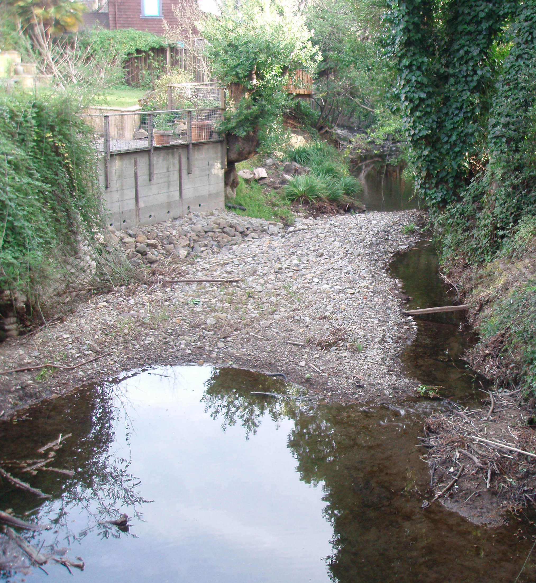 Arroyo Corte Madera del Presidio, lower reach